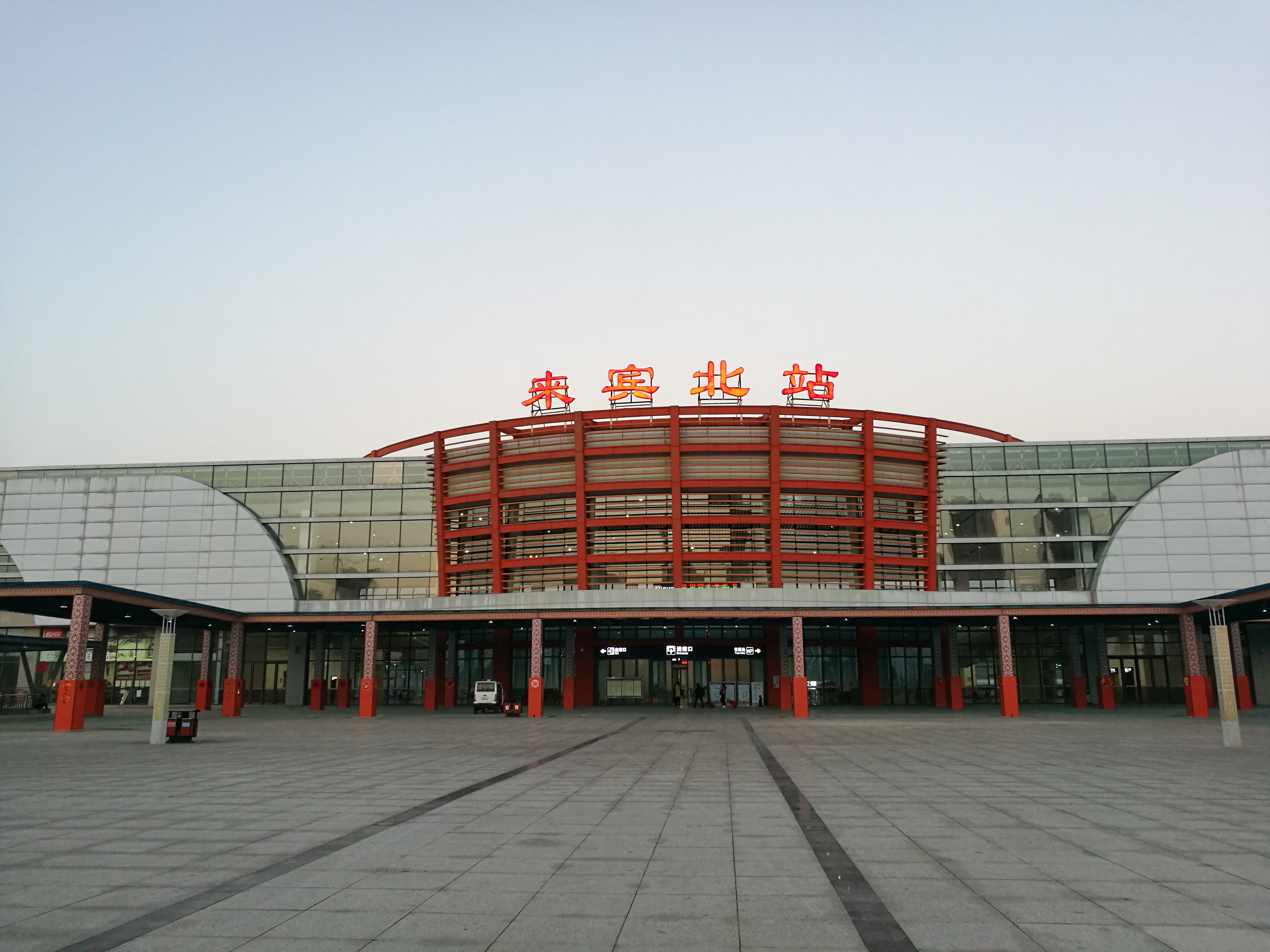 Laibinbei Railway Station